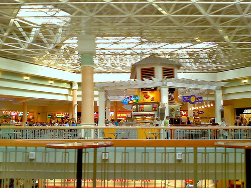 Taken June 3, 2010 in the Hamilton Mall in Mays Landing, New Jersey, USA